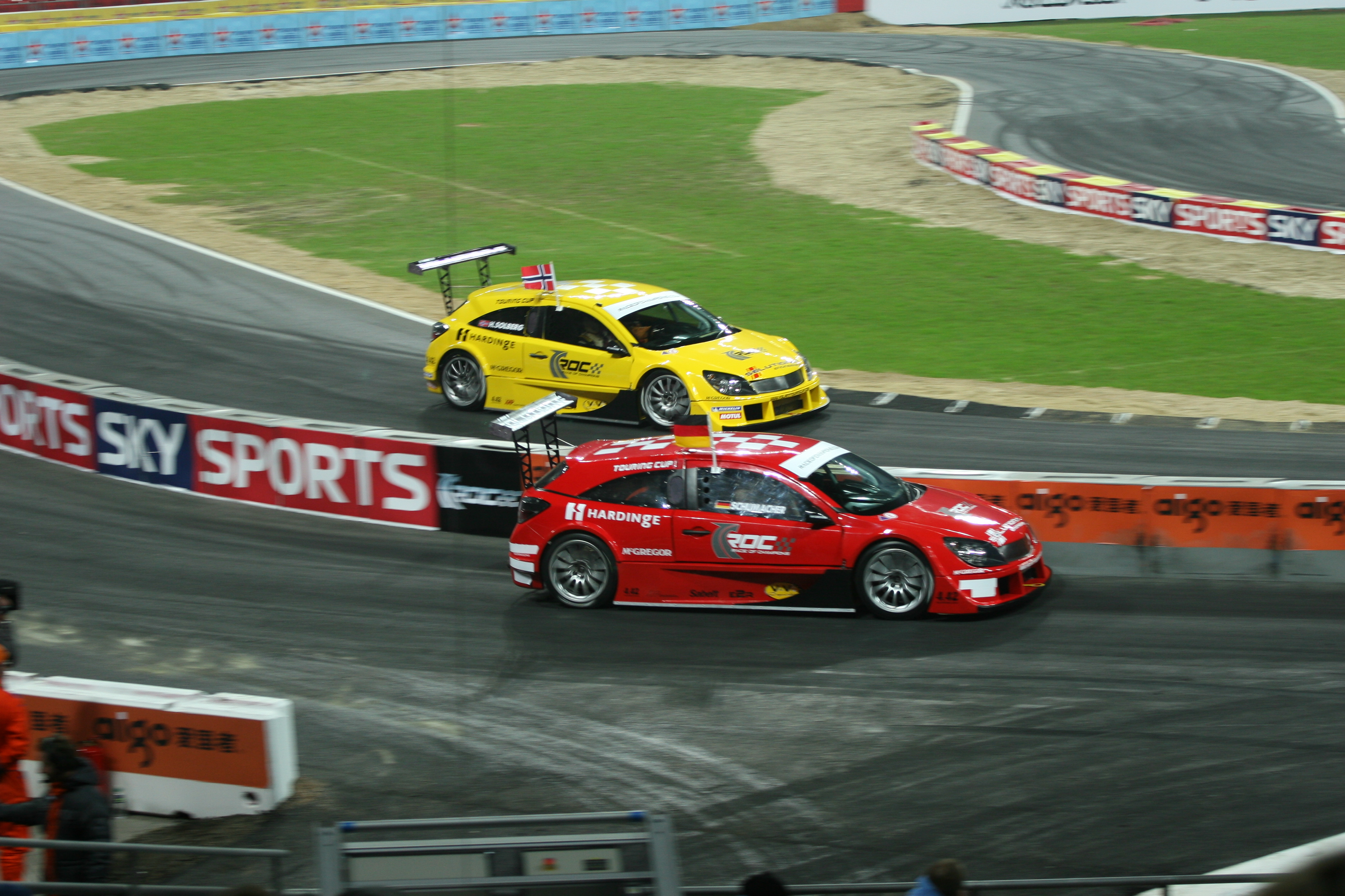 Michael Schumacher and Henning Solberg driving Solution F touring cars at the 2007 Race of Champions at Wembley Stadium.